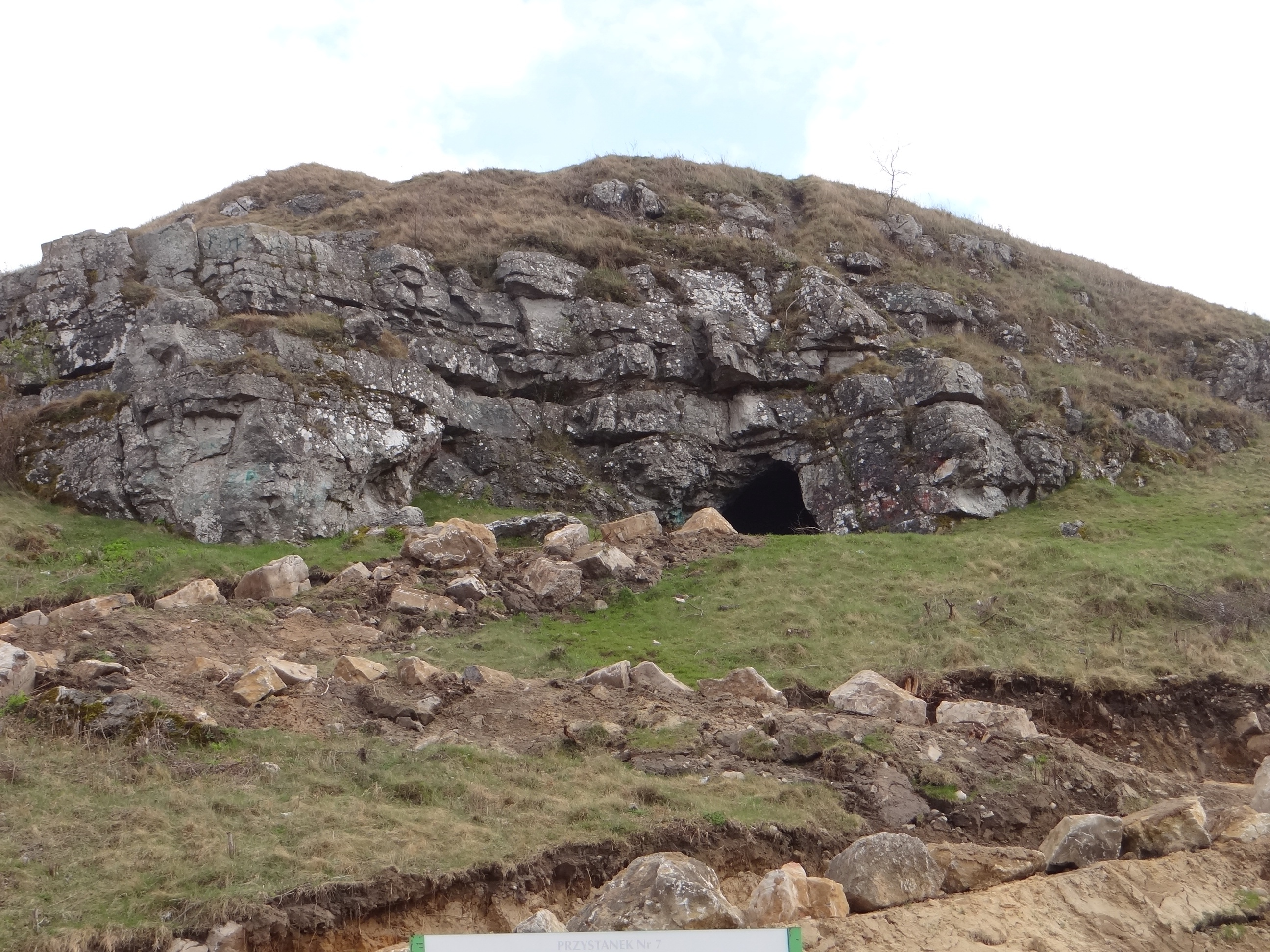 Zbójecka Cave